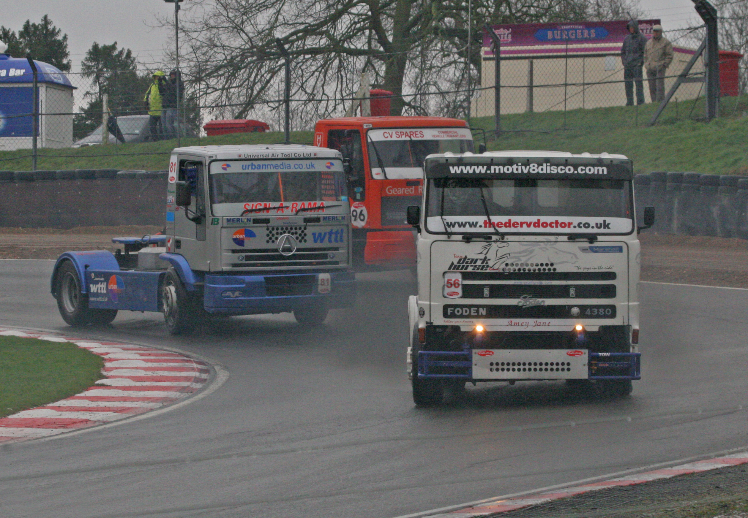 Truck racing